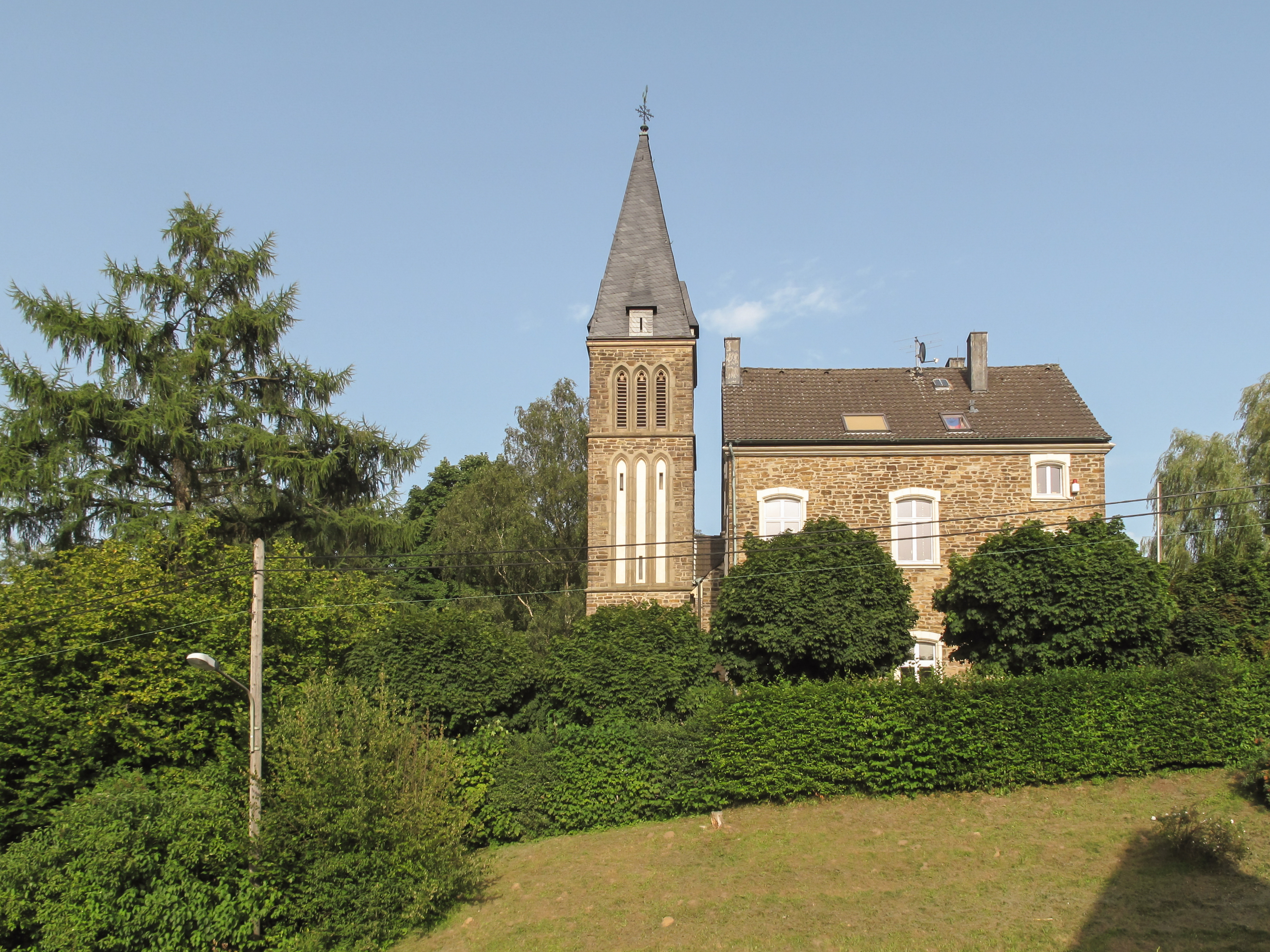 Niederbonsfeld, church: Pfarrkirche Sankt Engelbert